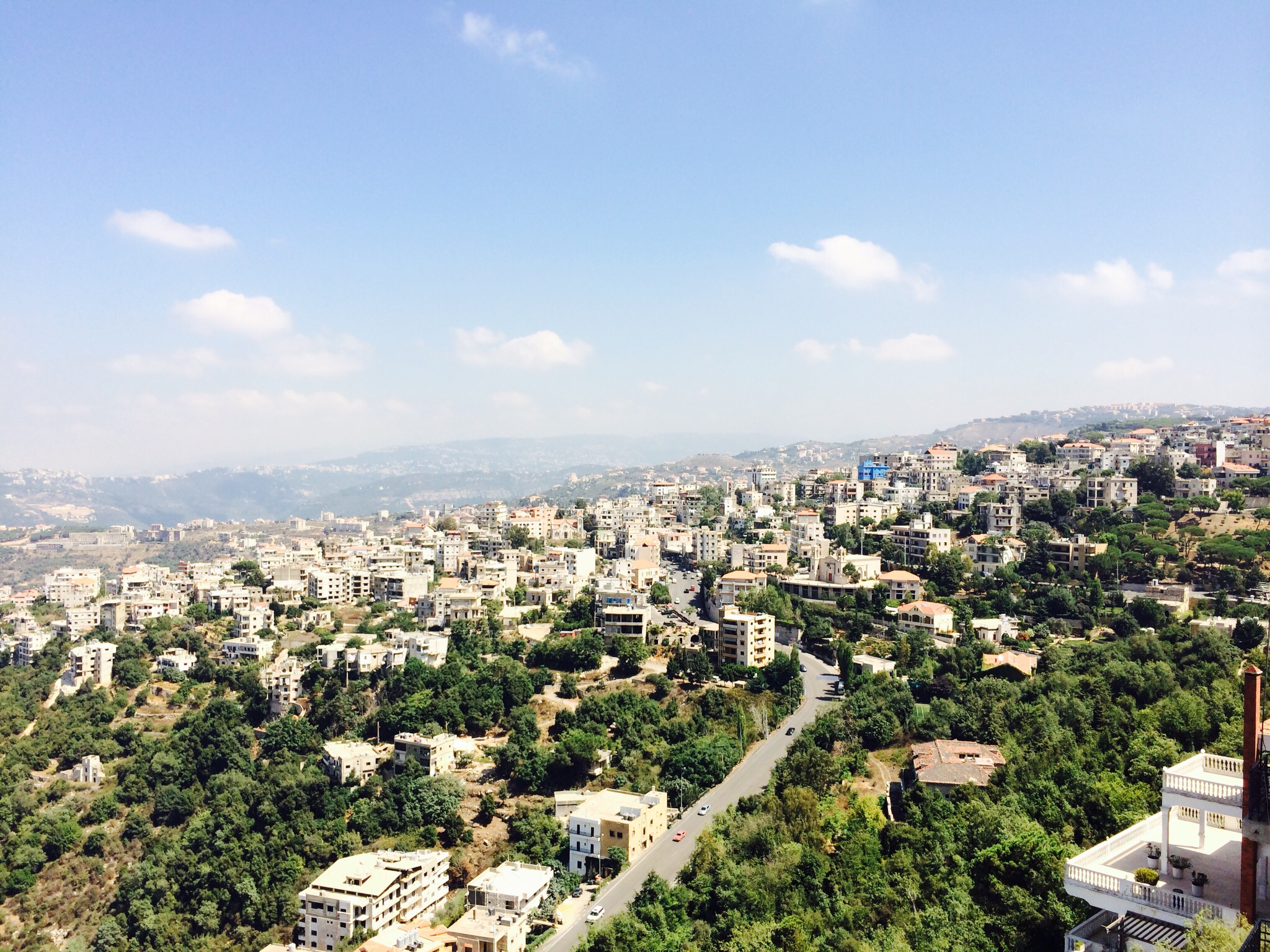 Panoramic view of Aley from Ras Ill Jabal